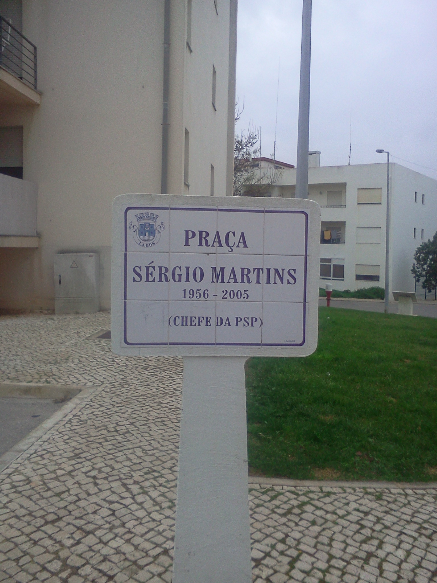 Street sign of Rua Sérgio Martins, in the city of Lagos, in southern Portugal.